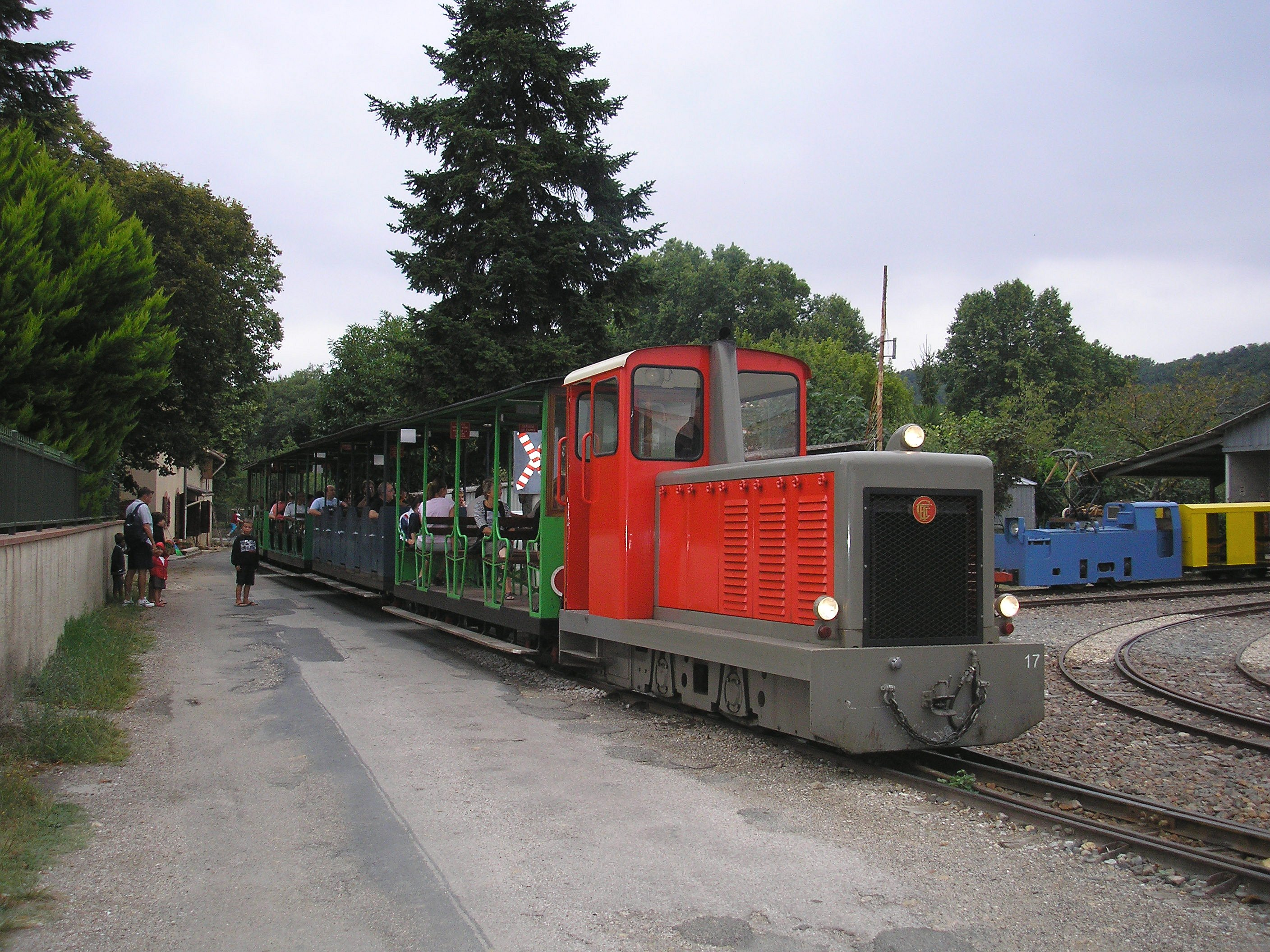 4 studies of the delightful little railway to be found near Lavaur in the Tarn region of Southern France. A diesel service runs off peak with steam services running in high season. Captured in June 2009. Camera: Olympus FE-120 6.0 Digital.